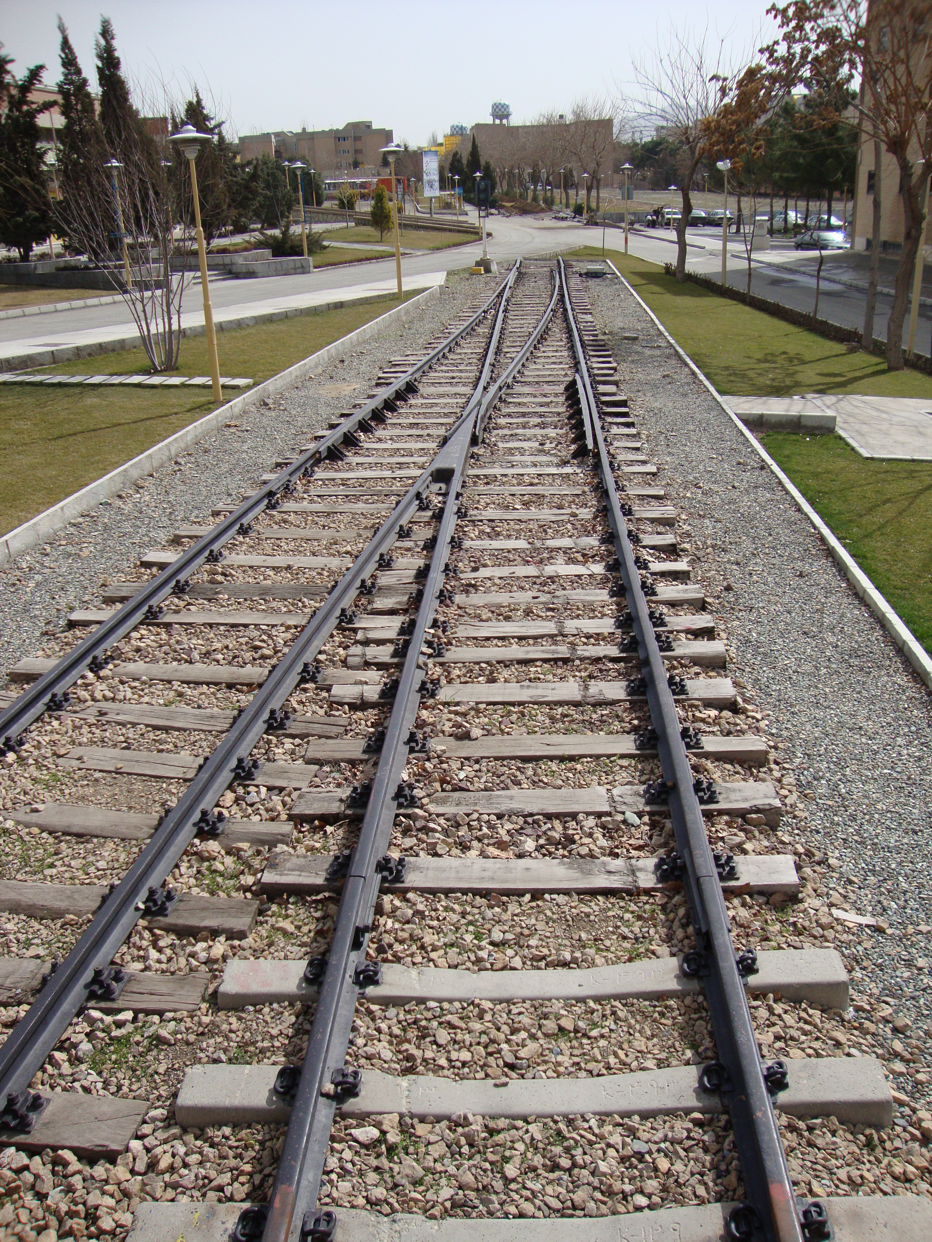 Railway in front of Railway Engineering School, Iran University of Science and Technology